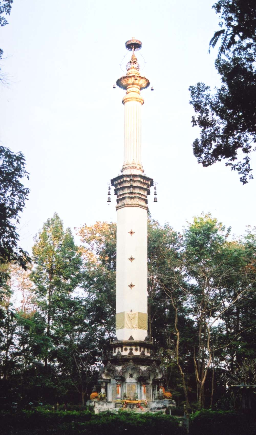 Description Si Surat Stupa on Khao Tapet hill, near the town of Surat Thani, Thailand. The stupa was built in the Srivijaya style in 1957. Photo taken by User:Ahoerstemeier on January 18 2005.